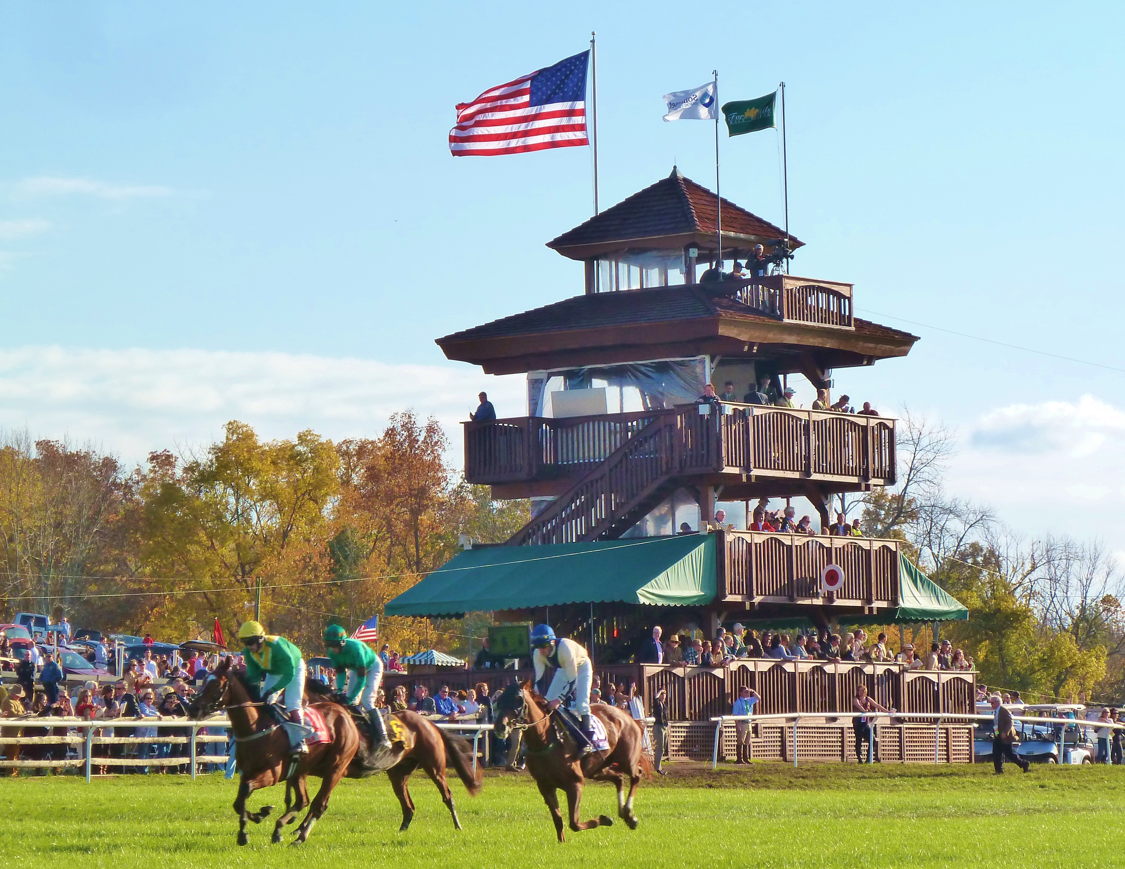 At the Finish Line, Far Hills Race, 2012